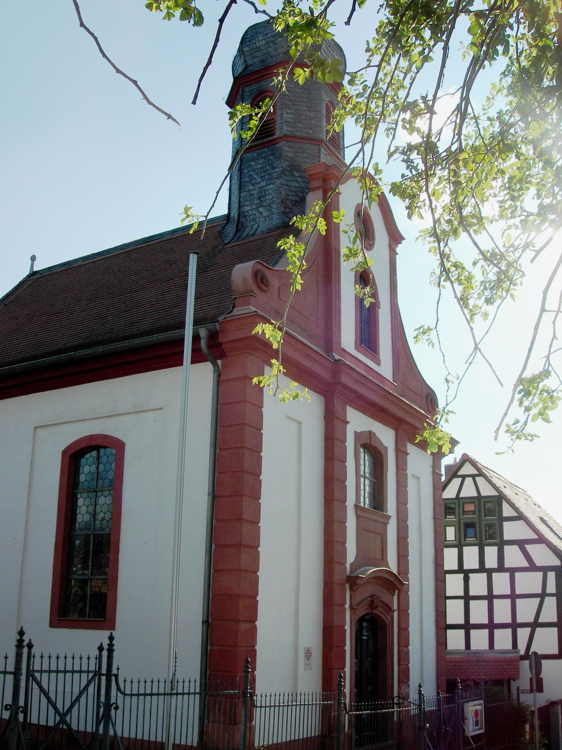 Heubach near Groß-Umstadt (Hesse), lutherian church